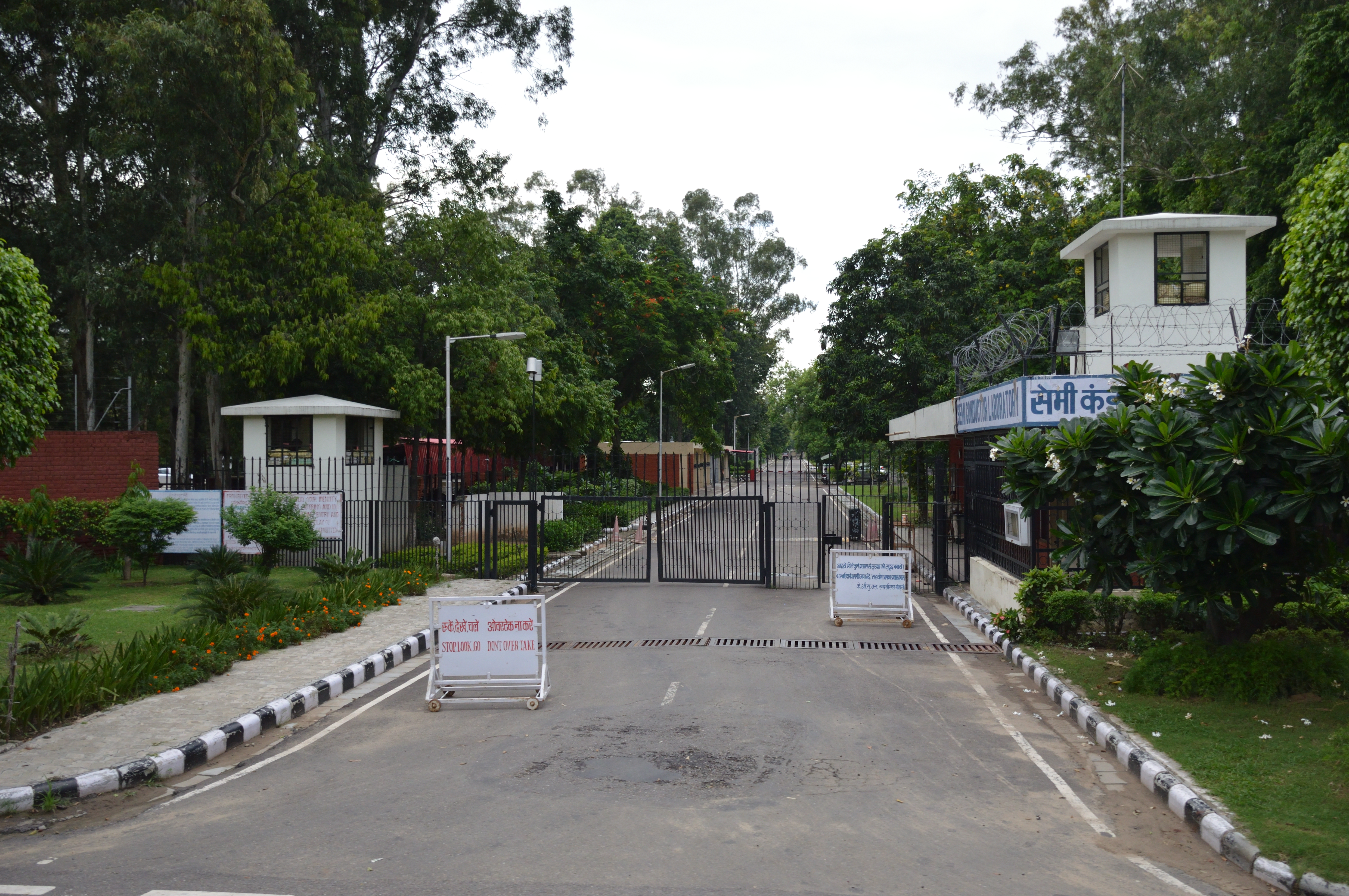 This photograph was taken on the 3rd day during the 'WikiConference India 2016' or WCI2016. It was held at the 'Chandigarh Group of Colleges' (CGC), Landran, Mohali on 5, 6, and 7 August 2016. About 200 Wikipedians from India, Bangladesh, Srilanka and the USA were participated at the three day event.